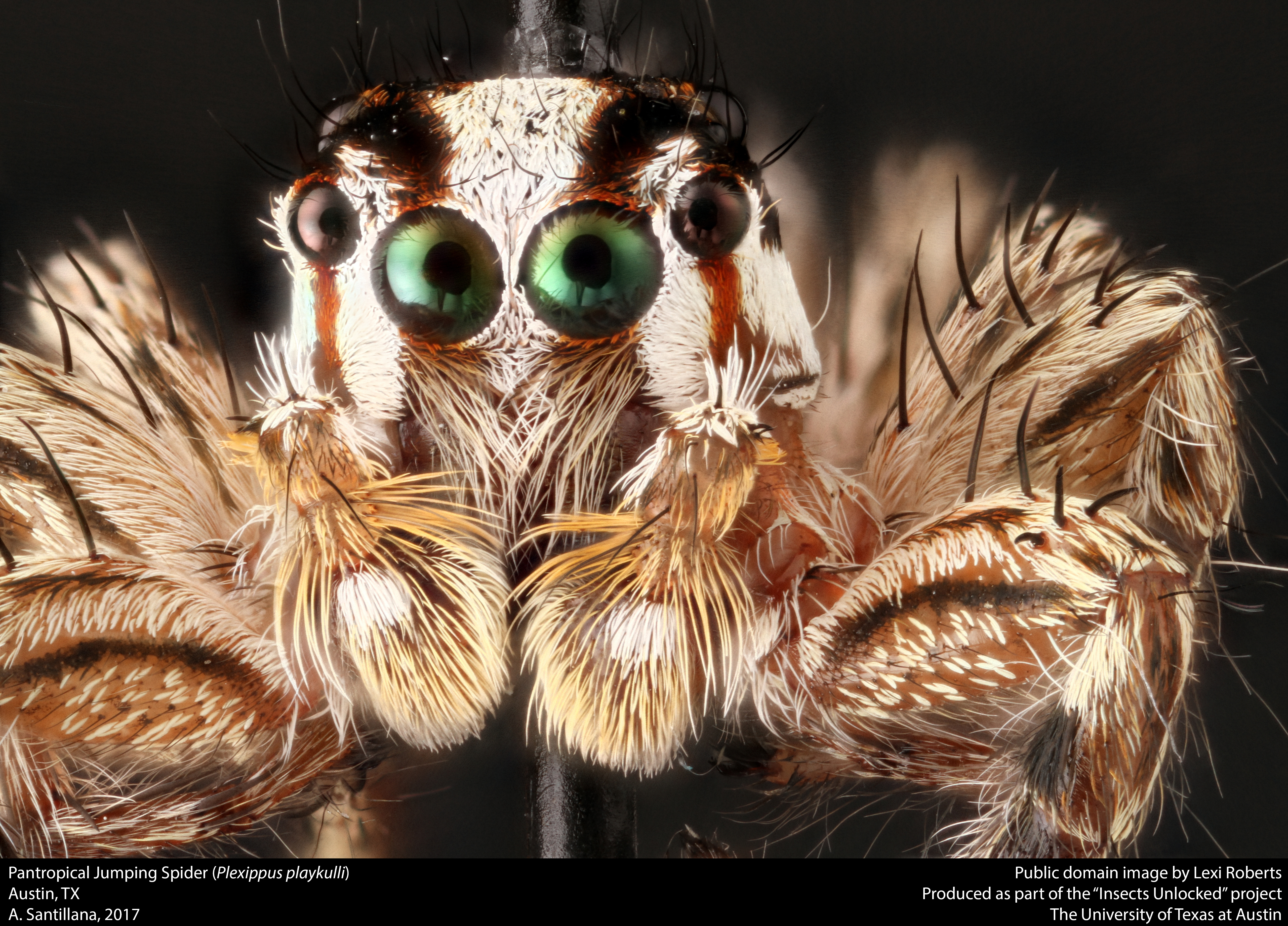 This image was created as part of the Insects Unlocked project at the University of Texas at Austin. Based in the UT insect collection at Brackenridge Field Laboratory, part of the Department of Integrative Biology. Do not crop: This image is used on one or more sister projects (where its entire contents are wanted), or has archival significance. If you crop it, please save the new image separately, and do not overwrite this